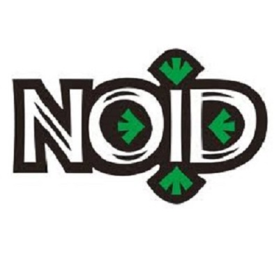 Logo of Veps band Noid